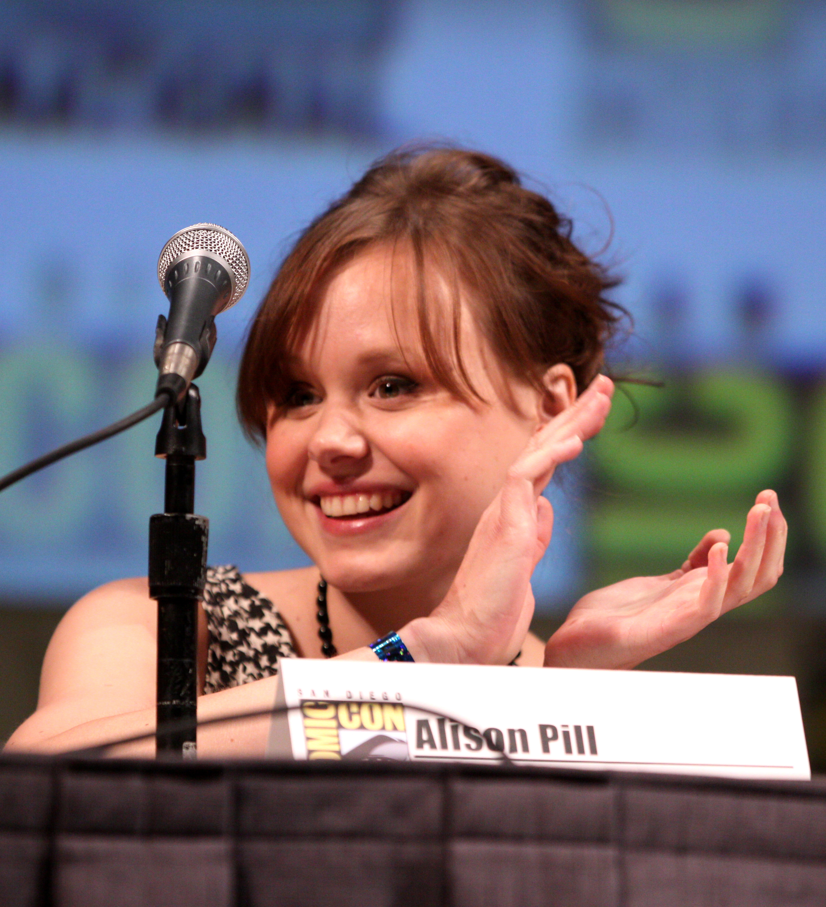 Actress Alison Pitt on the Scott Pilgrim vs. the World panel at the 2010 San Diego Comic Con in San Diego, California.